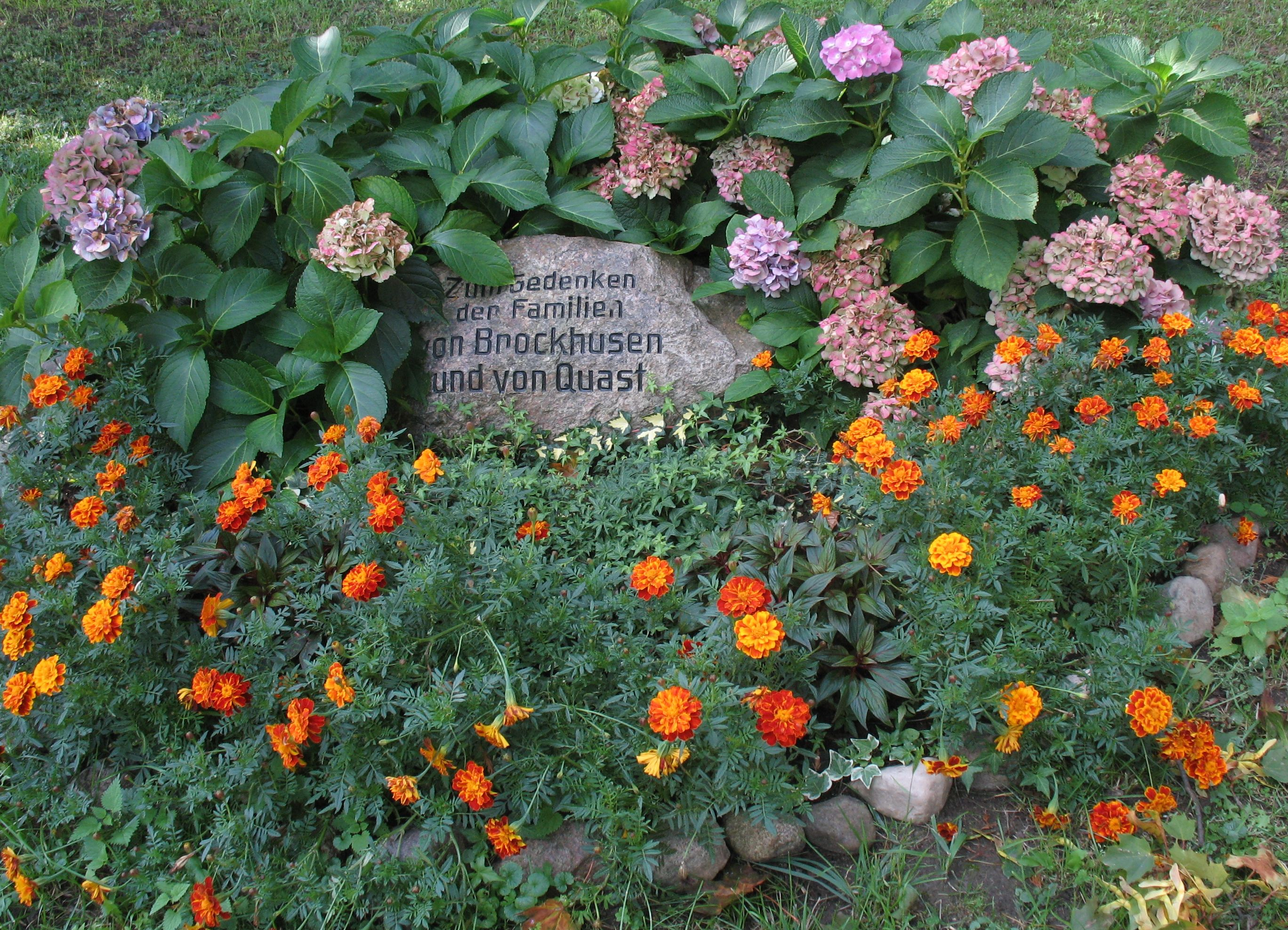 Memorial stone in Fehrbellin-Langen in Brandenburg, Germany